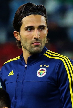 Hasan Ali Kaldırım